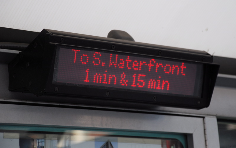 An electronic readerboard, or LED sign, mounted inside a shelter at a stop on the Portland Streetcar system and giving real-time information on the approximate time remaining until the arrival of the next two streetcars bound for the South Waterfront district. The information is based on GPS tracking of the vehicles, rather than the set schedule.